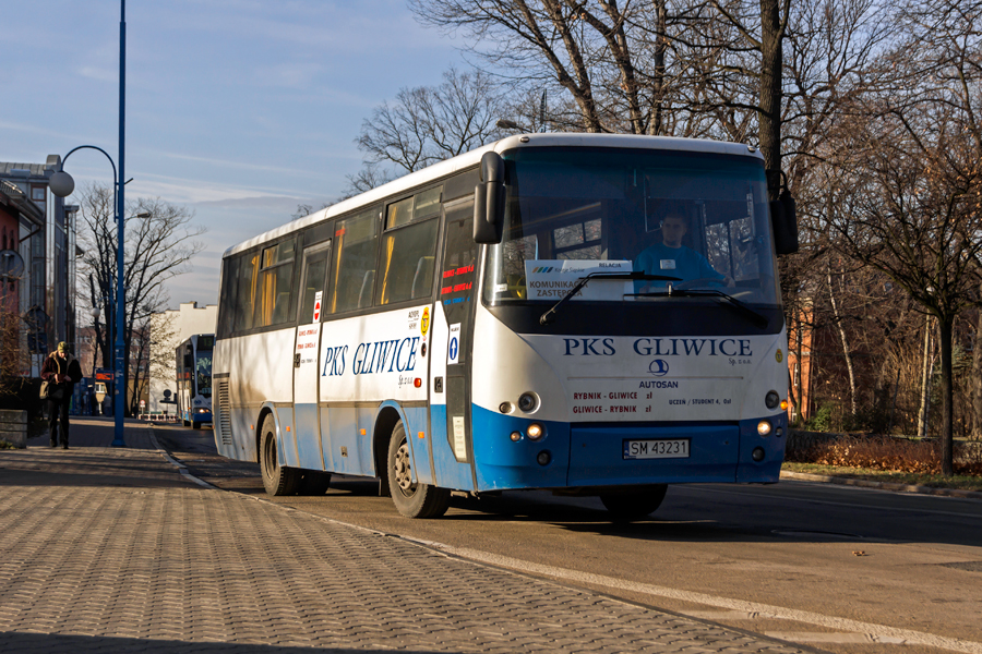 Replacement bus of Koleje Śląskie in Rybnik